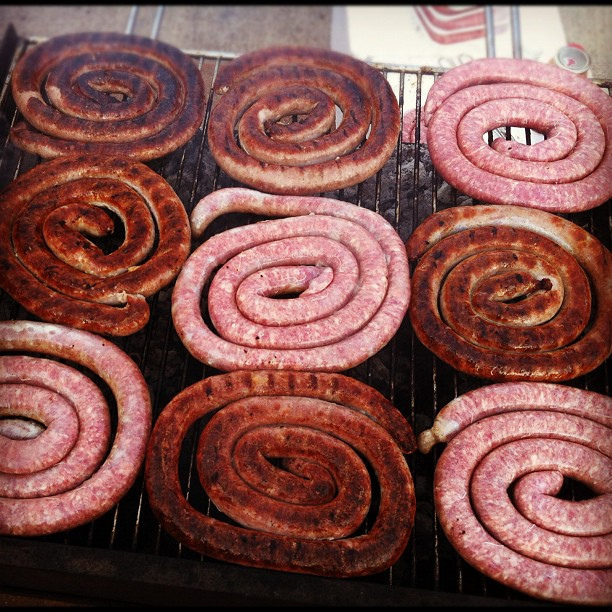 Botifarra being grilled at the Medieval Fair in the city of Vic, Catalonia